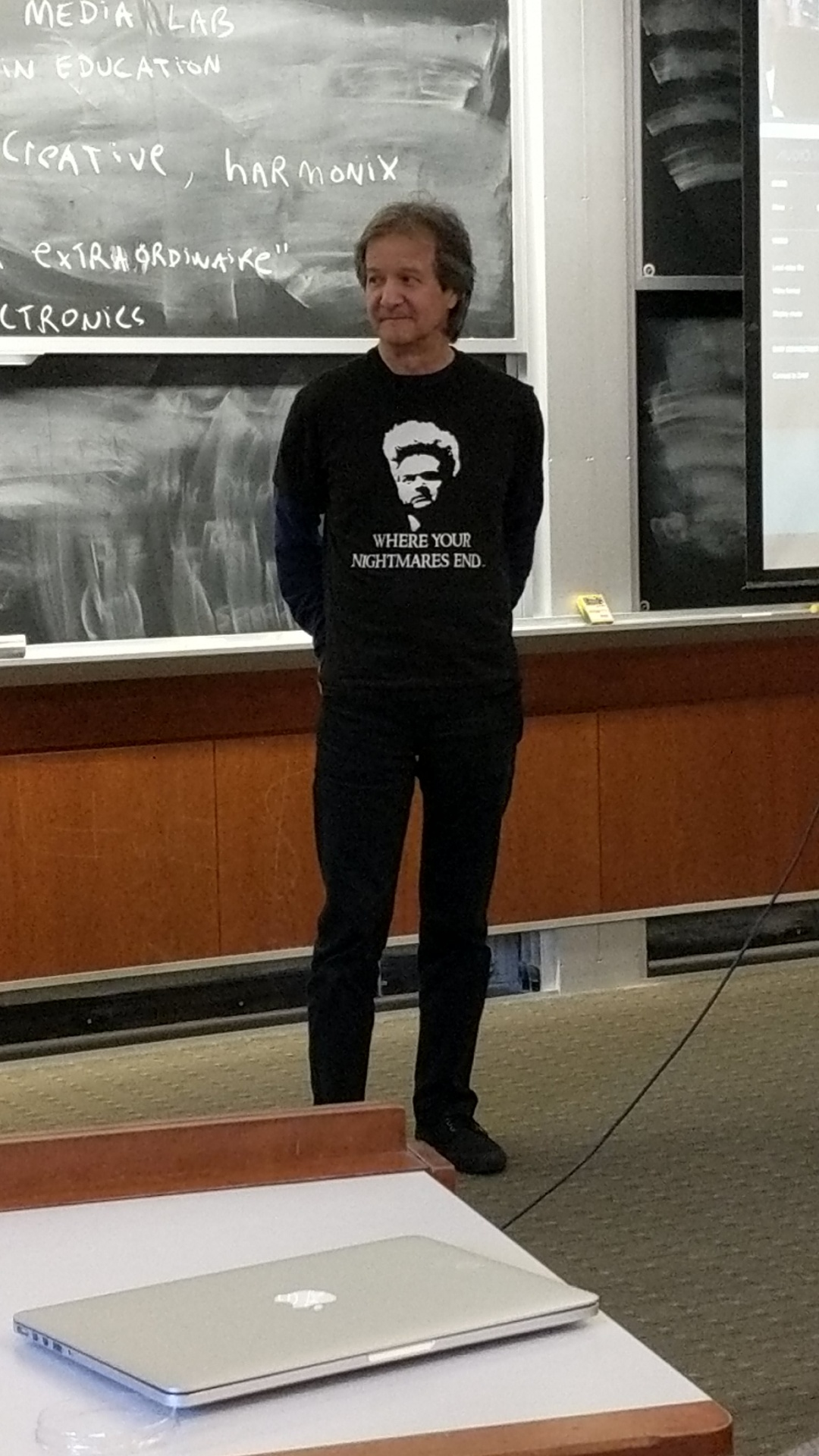 Bob talking at MIT in 2017